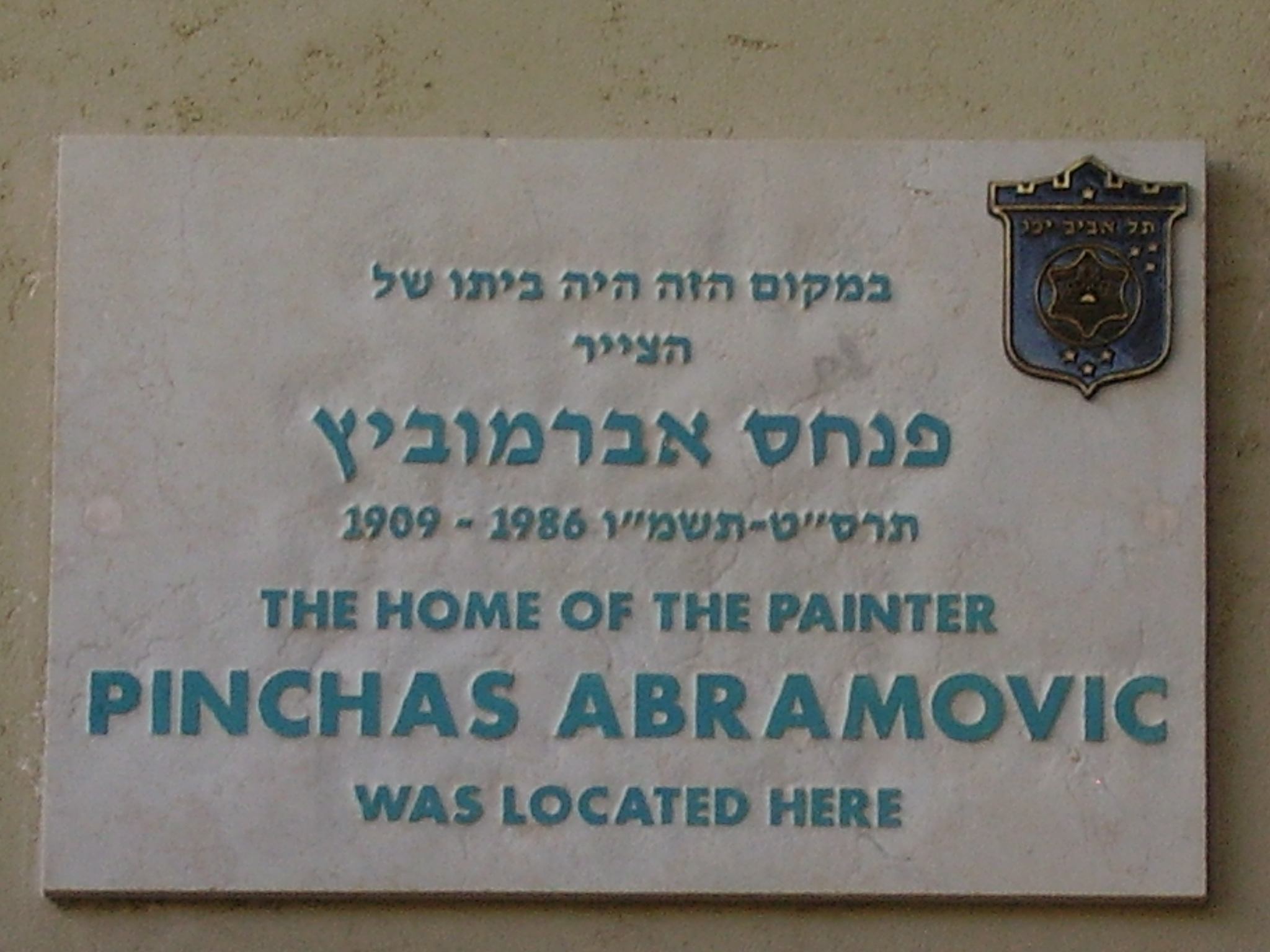 memorial plaque to the painter pinchas abramovic in tel aviv לוחית זיכרון לצייר פנחס אברמוביץ ברח' קרני בתל אביב